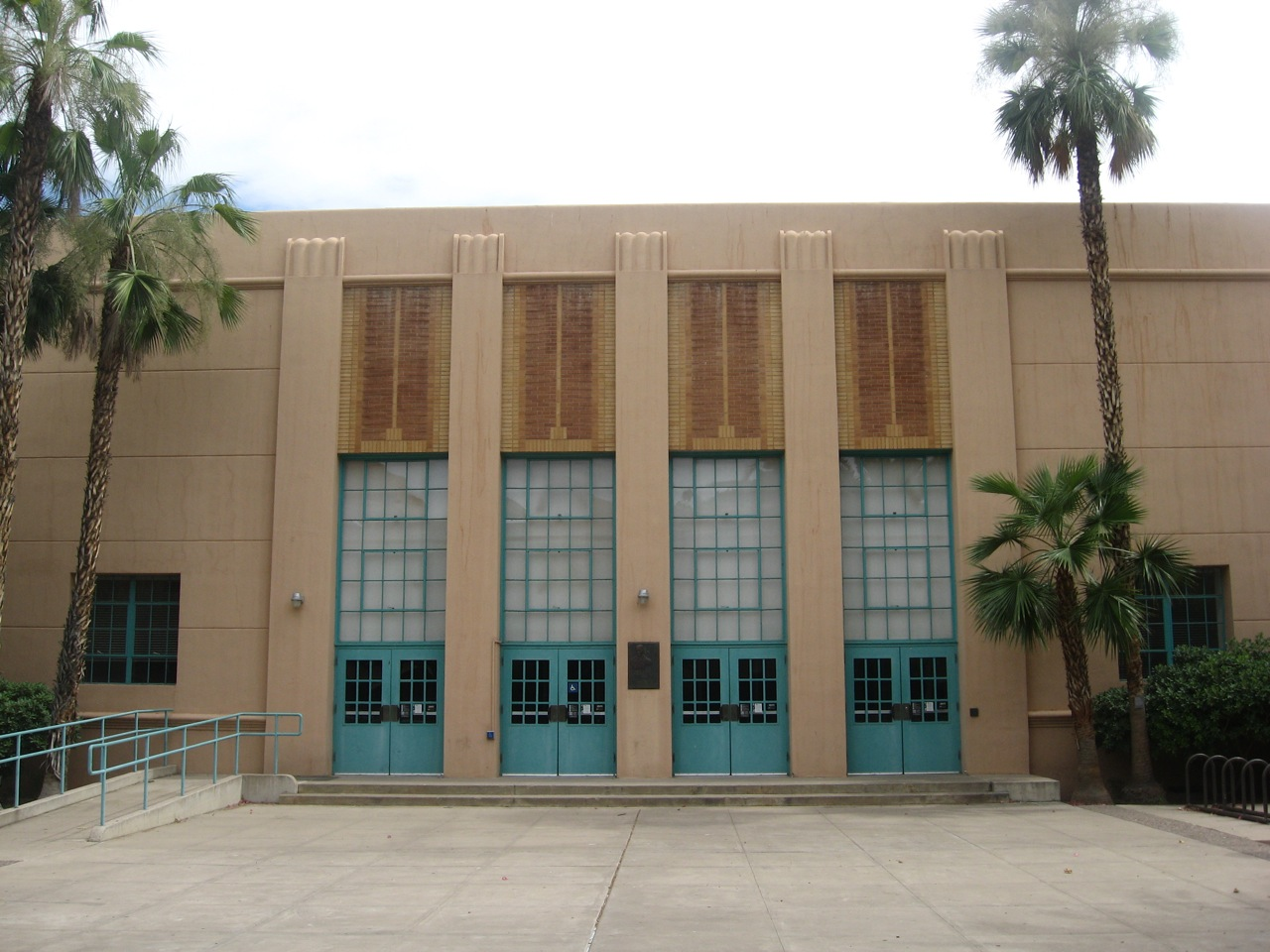 Built in 1939 by the WPA as a women's gymnasium, this Federal Moderne style building is now home to the Mars Space Flight Facility. It was added to the National Register of Historic Places in 1985.